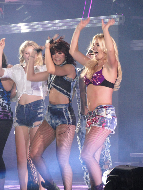 Spears